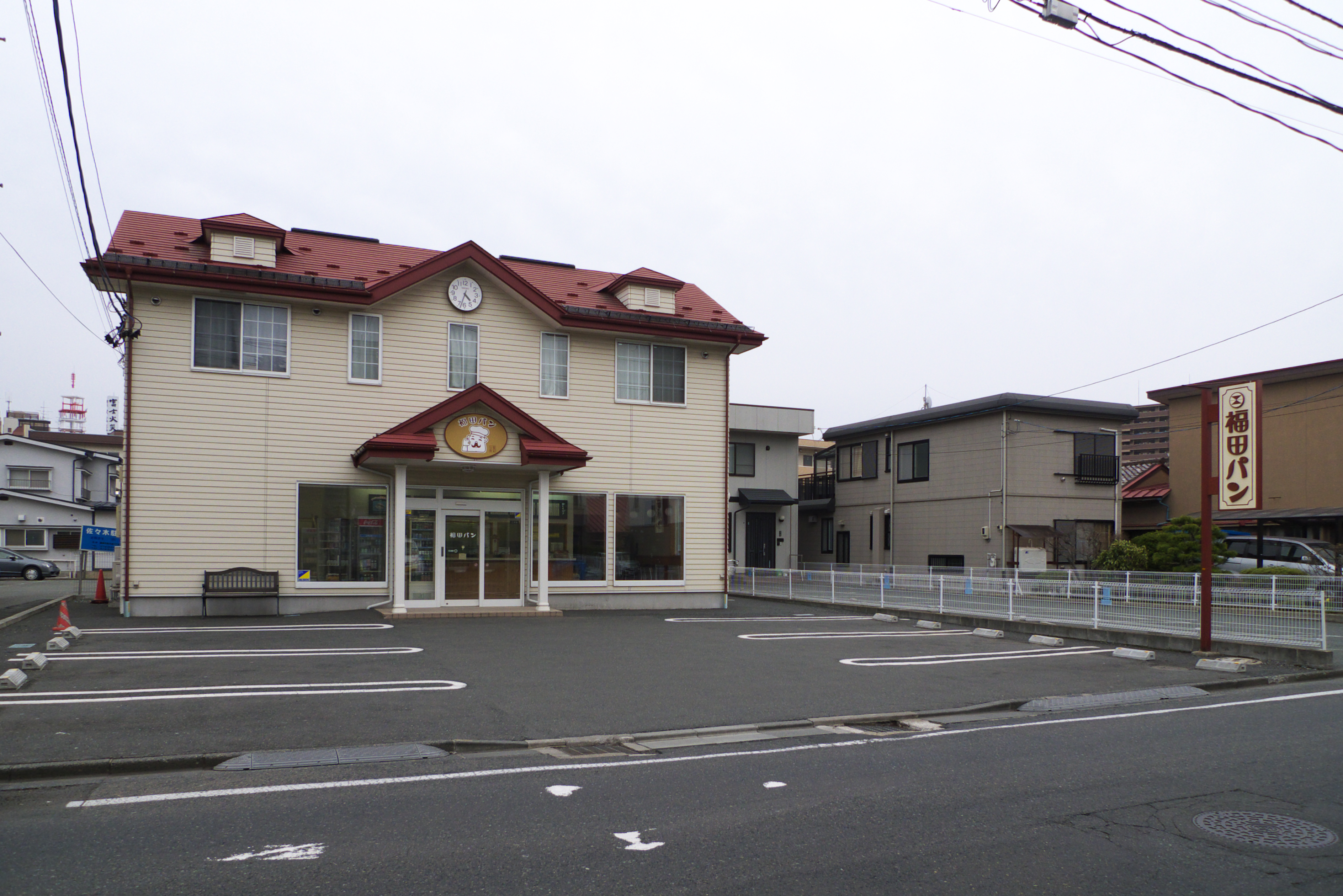 Fukuda Pan ("Fukuda Bakery") main store in Morioka City, Iwate Prefecture, Japan